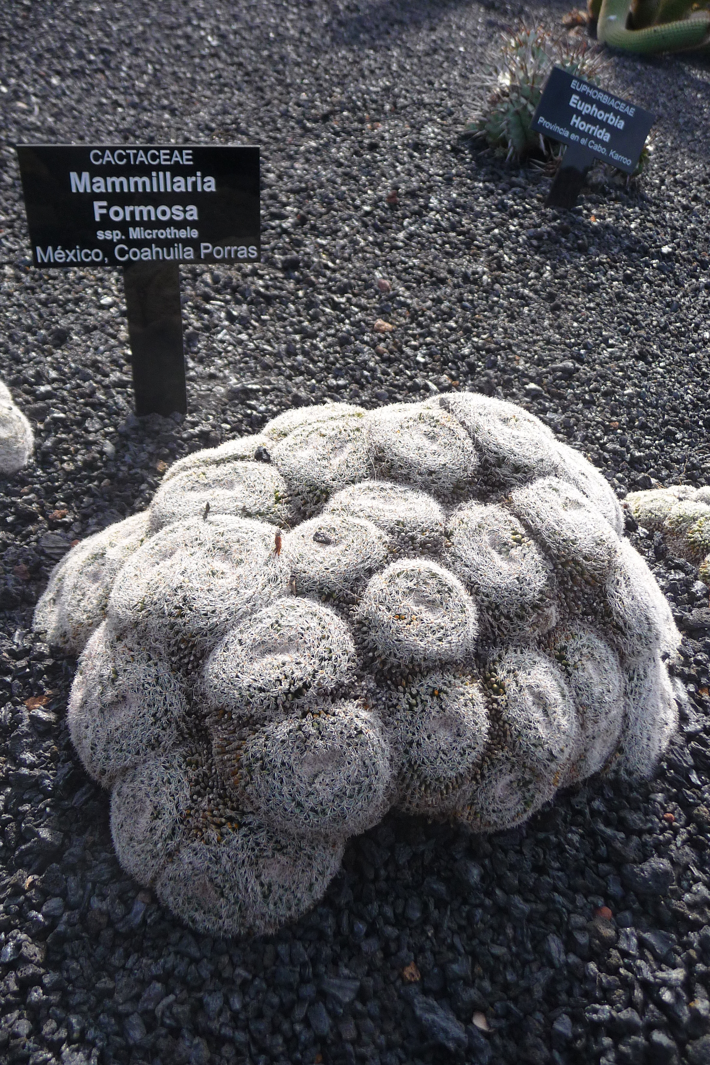 group building